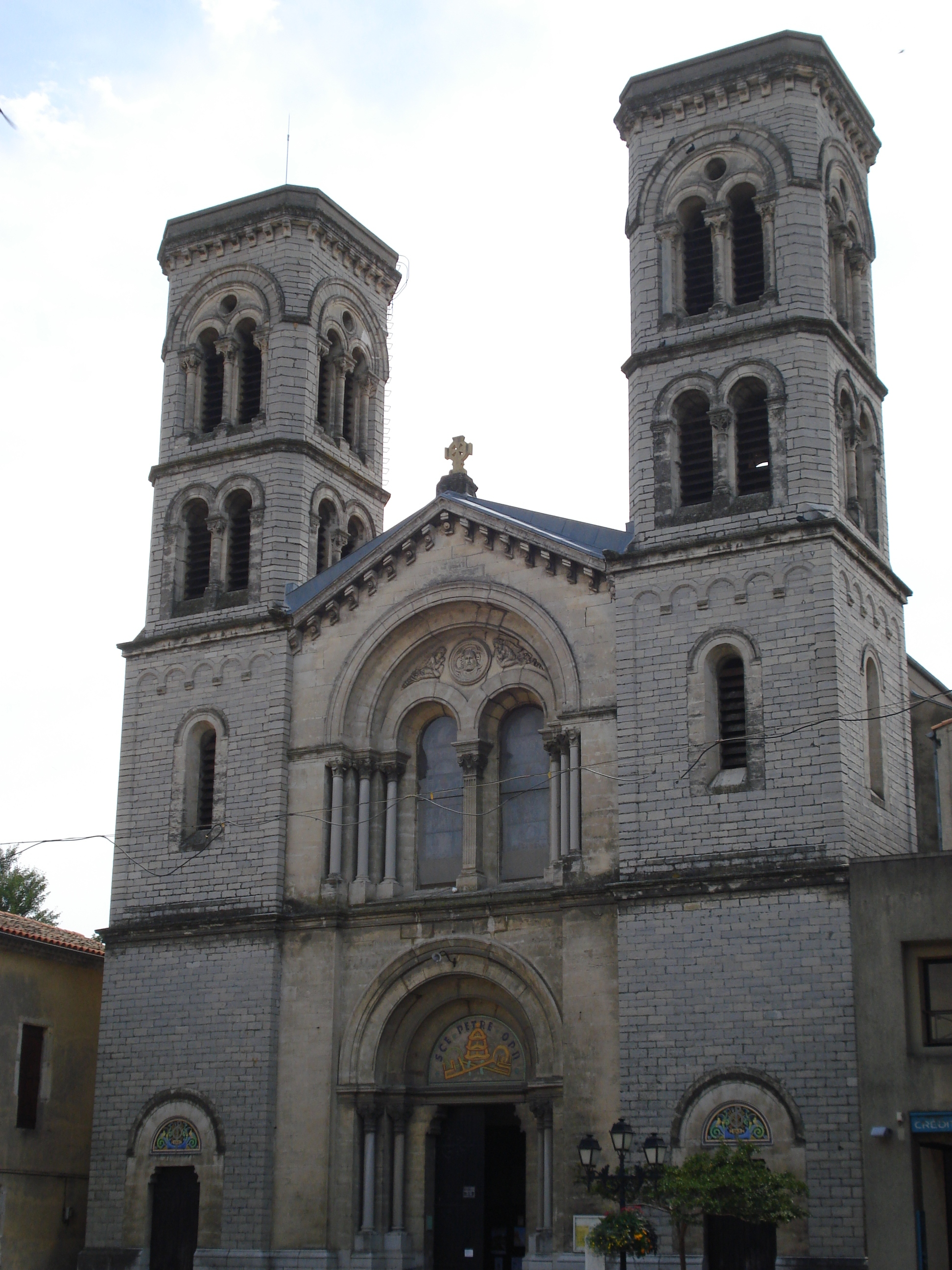 Ganges (Hérault, Fr), catholic church Saint-Pierre et Saint-Paul